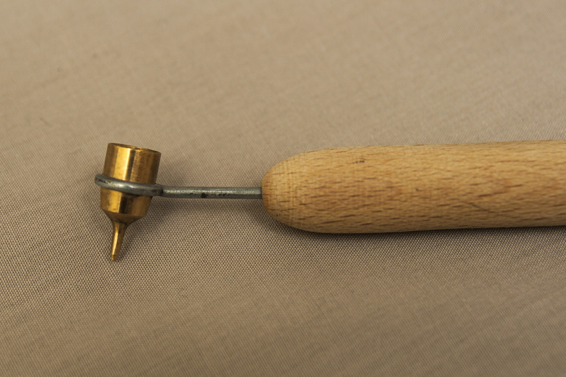 Hot wax pen (pysanka tool)